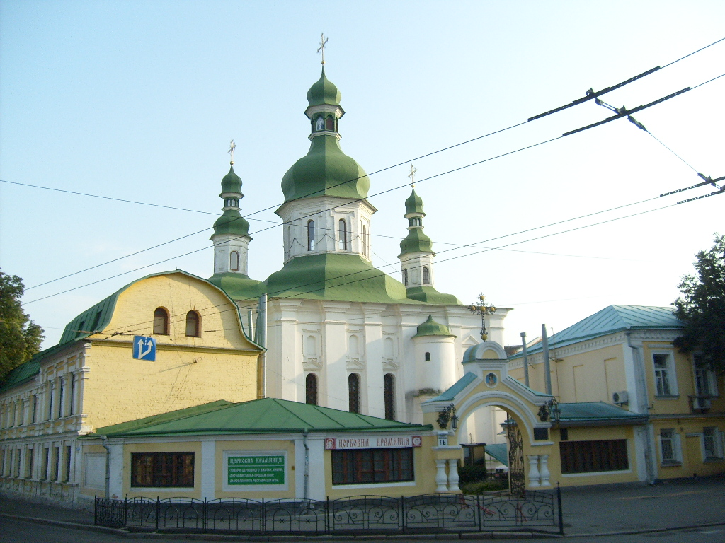 Feodosiy Pecherskiy church in Kiev